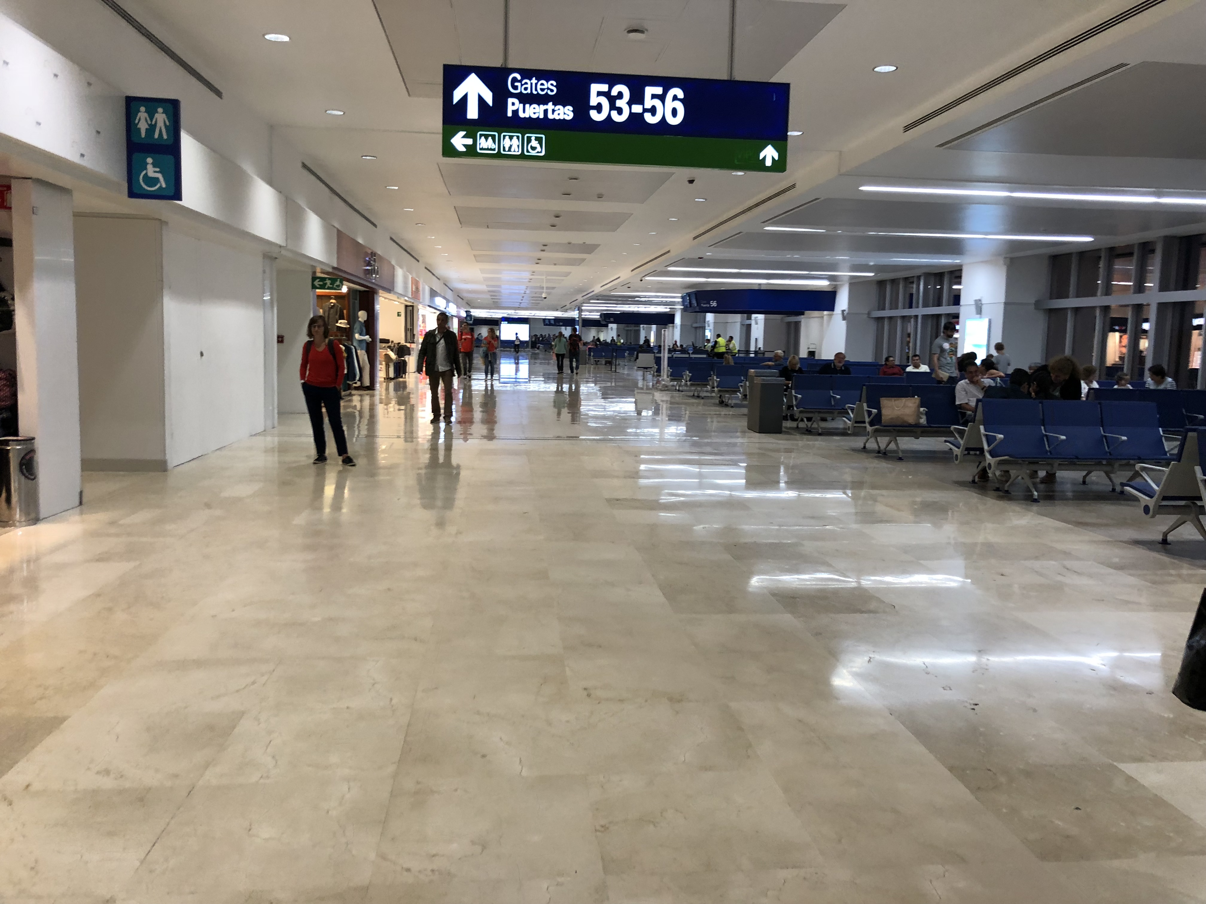 Terminal 4 of Cancún International Airport.